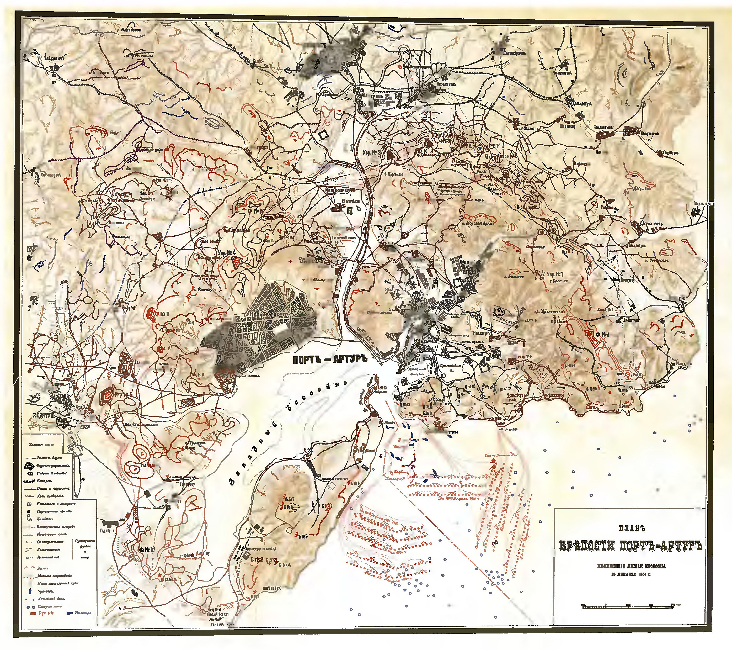 Port Arthur, China Кыргызча: Порт-Артур — Кытайдын сары деңизинде жайгашкан мурунку порттук шаар (тоңбогон порт, аскер-деңиздик база).